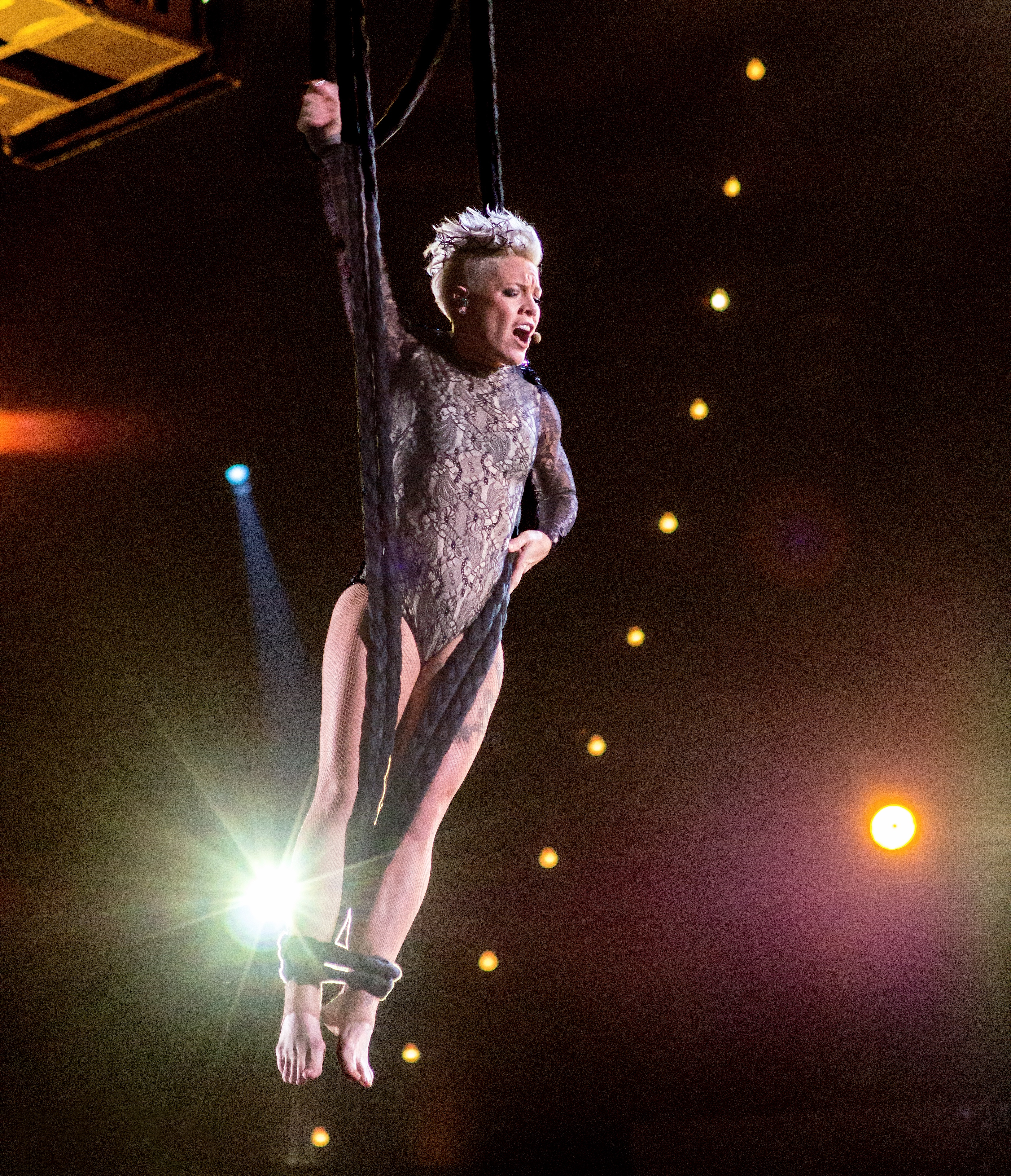 Pink Grammys 2014